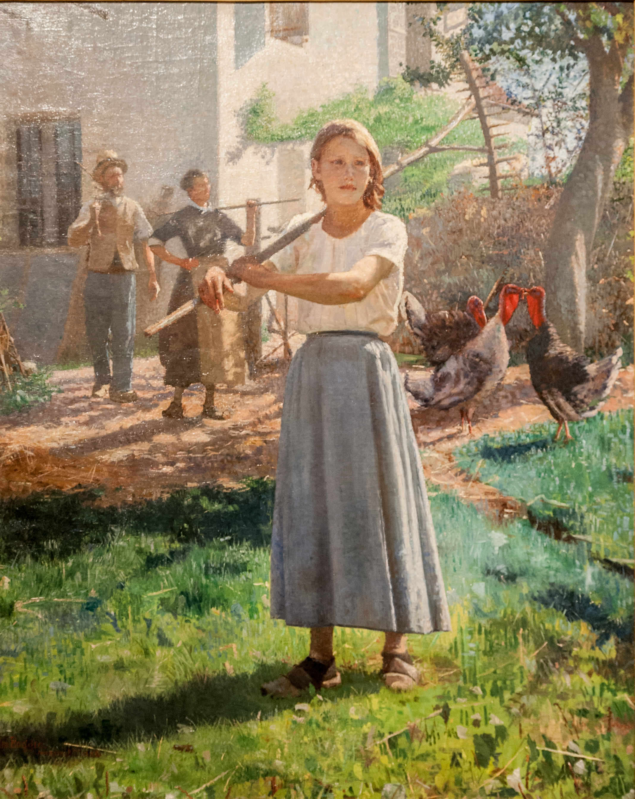 Le départ pour les champs (Departure to the Fields), 1894 by Emilio Boggio (1857-1920), Oil on canvas 132.1 x 105.4 cm. Colection Consejo Nacional de la Cultura (CONAC) . Caracas – Venezuela.